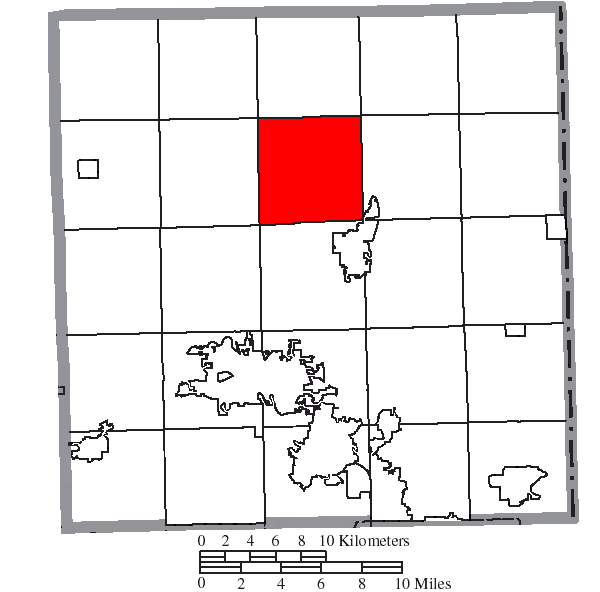 Map of the municipal and township boundaries of Trumbull County, Ohio, United States, as of the 2000 census, with the location of Mecca Township highlighted. Township borders are shown only in unincorporated areas in order to differentiate incorporated and unincorporated areas more clearly.